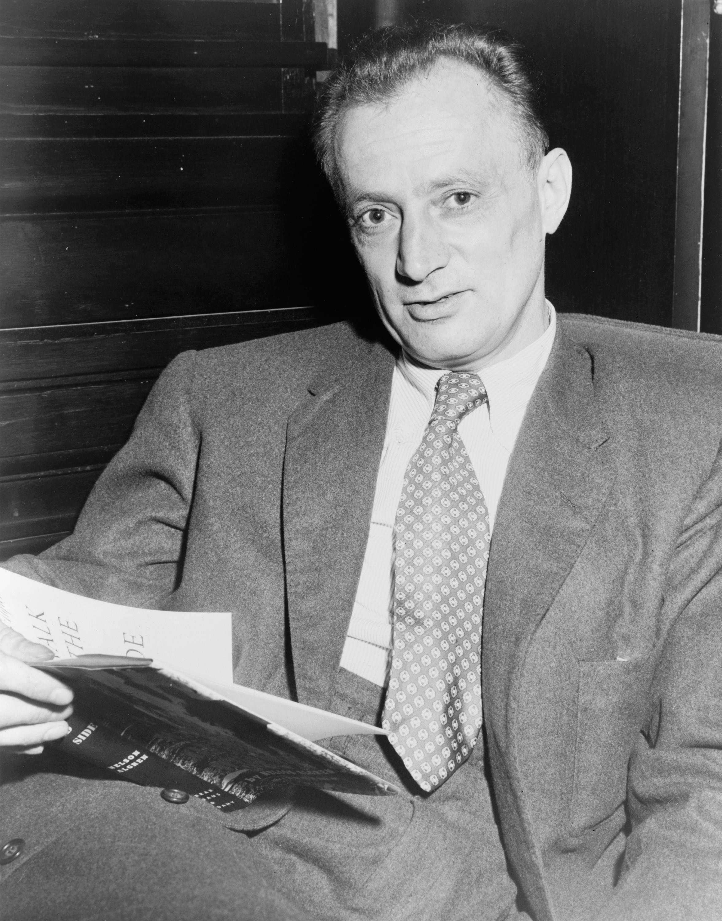 Nelson Algren, half-length portrait, seated, facing front, holding copy of his book "A Walk on the Wild Side" / World Telegram photo by Walter Albertin.